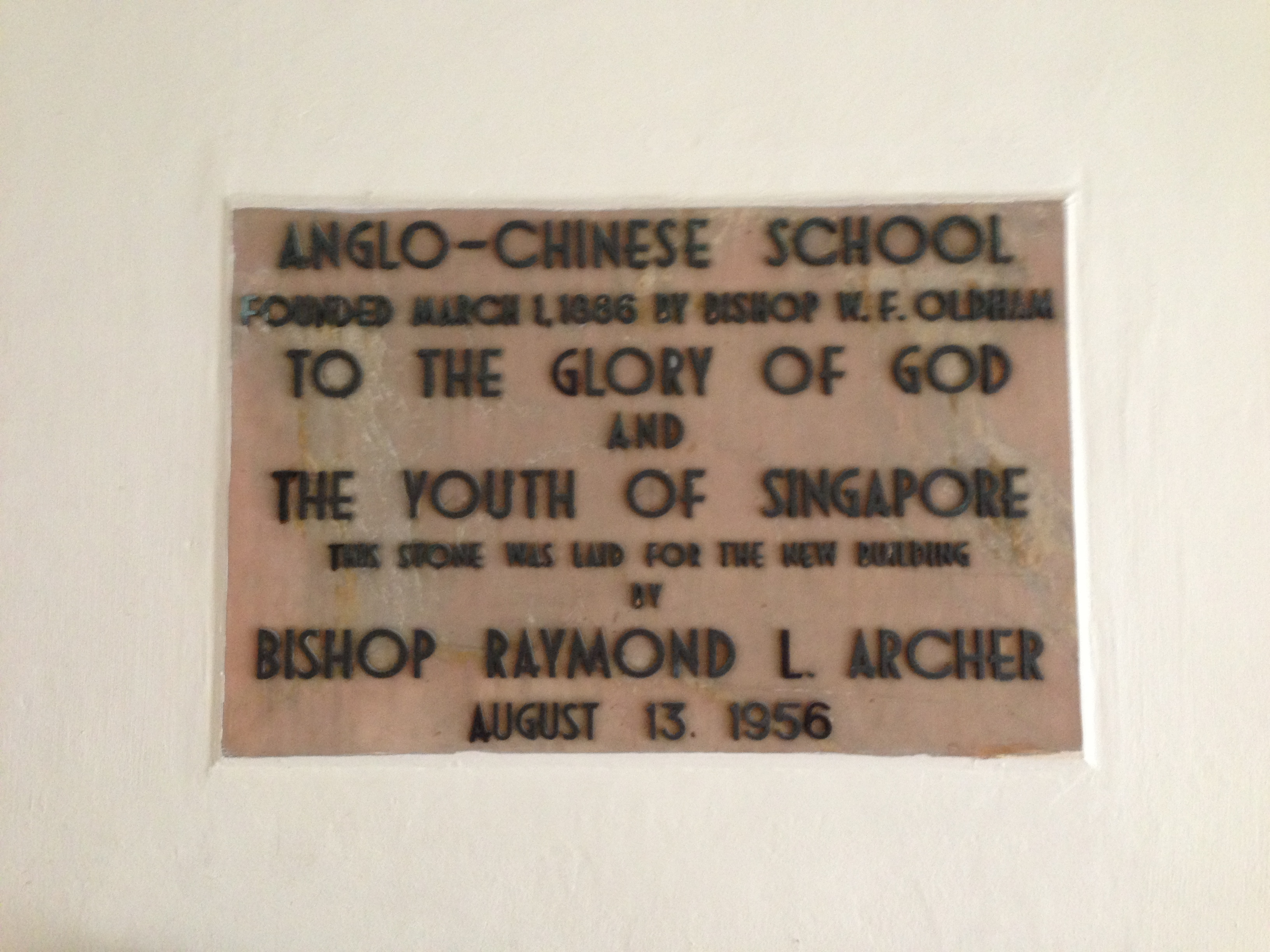 A plaque commemorating the construction of a new building at the Anglo-Chinese Primary School at 1 Canning Rise, Singapore. The building is now occupied by the National Archives of Singapore. The plaque reads: "ANGLO-CHINESE SCHOOL / FOUNDED MARCH 1, 1886 BY BISHOP W. F. OLDHAM / TO THE GLORY OF GOD / AND / THE YOUTH OF SINGAPORE / THIS STONE WAS LAID FOR THE NEW BUILDING / BY / BISHOP RAYMOND L. ARCHER / AUGUST 13, 1956".